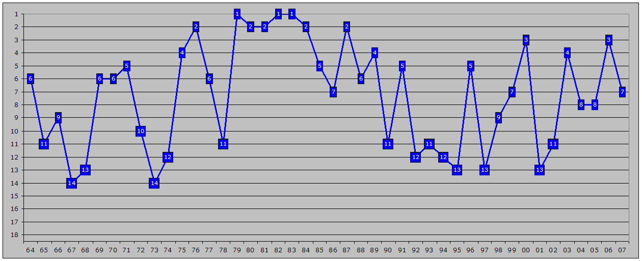 Chart of the finnishing places of the German football team Hamburger SV in the Bundesliga.